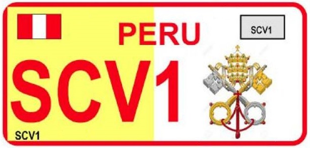 Popemobile registration plate created by RESOLUTION N° 018-2018 MTC/01.03 for Francis visit to Peru on 2018